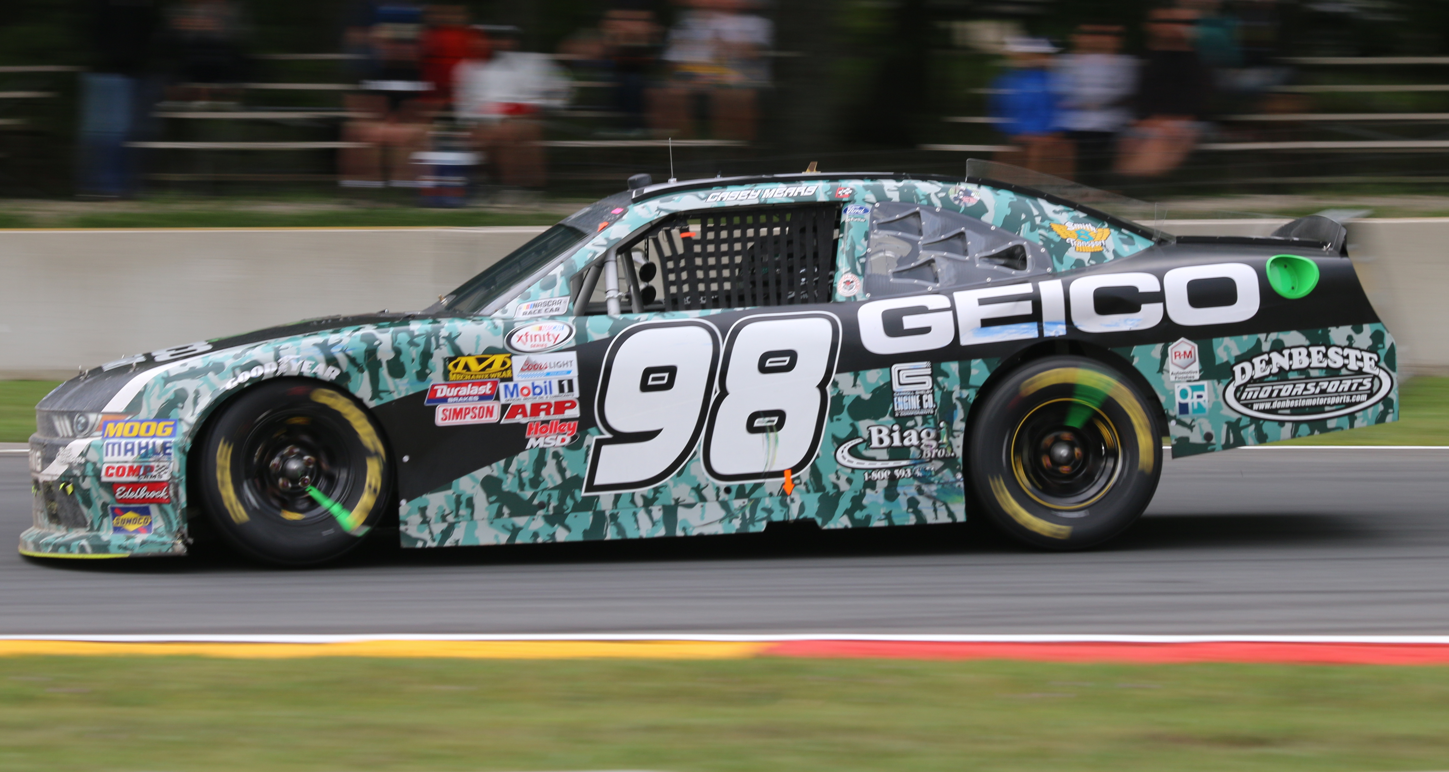 The Ford Mustang of Casey Mears at the NASCAR Xfinity Series Johnsonville 180.